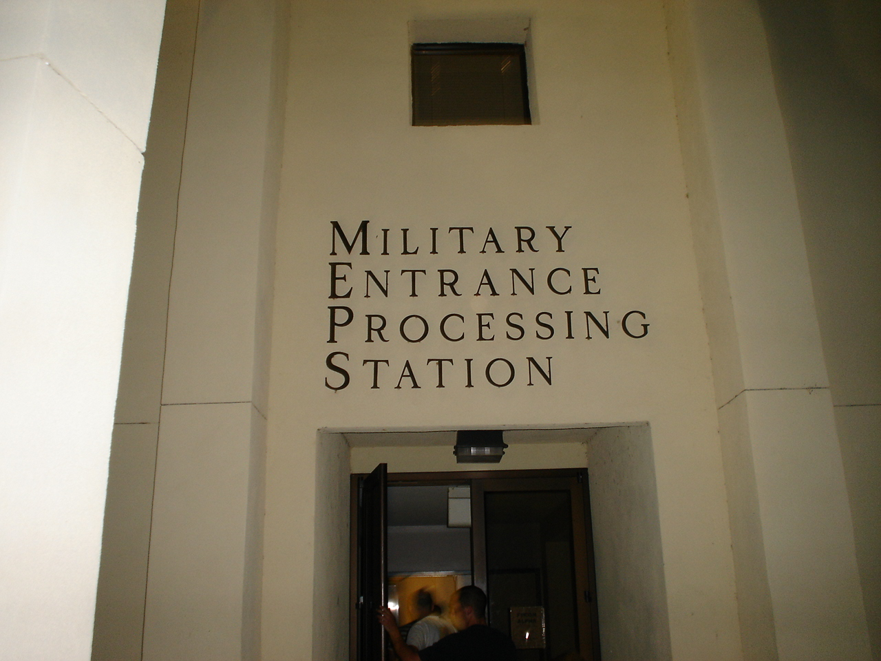 Placed into the public domain by the photographer, blankfaze.